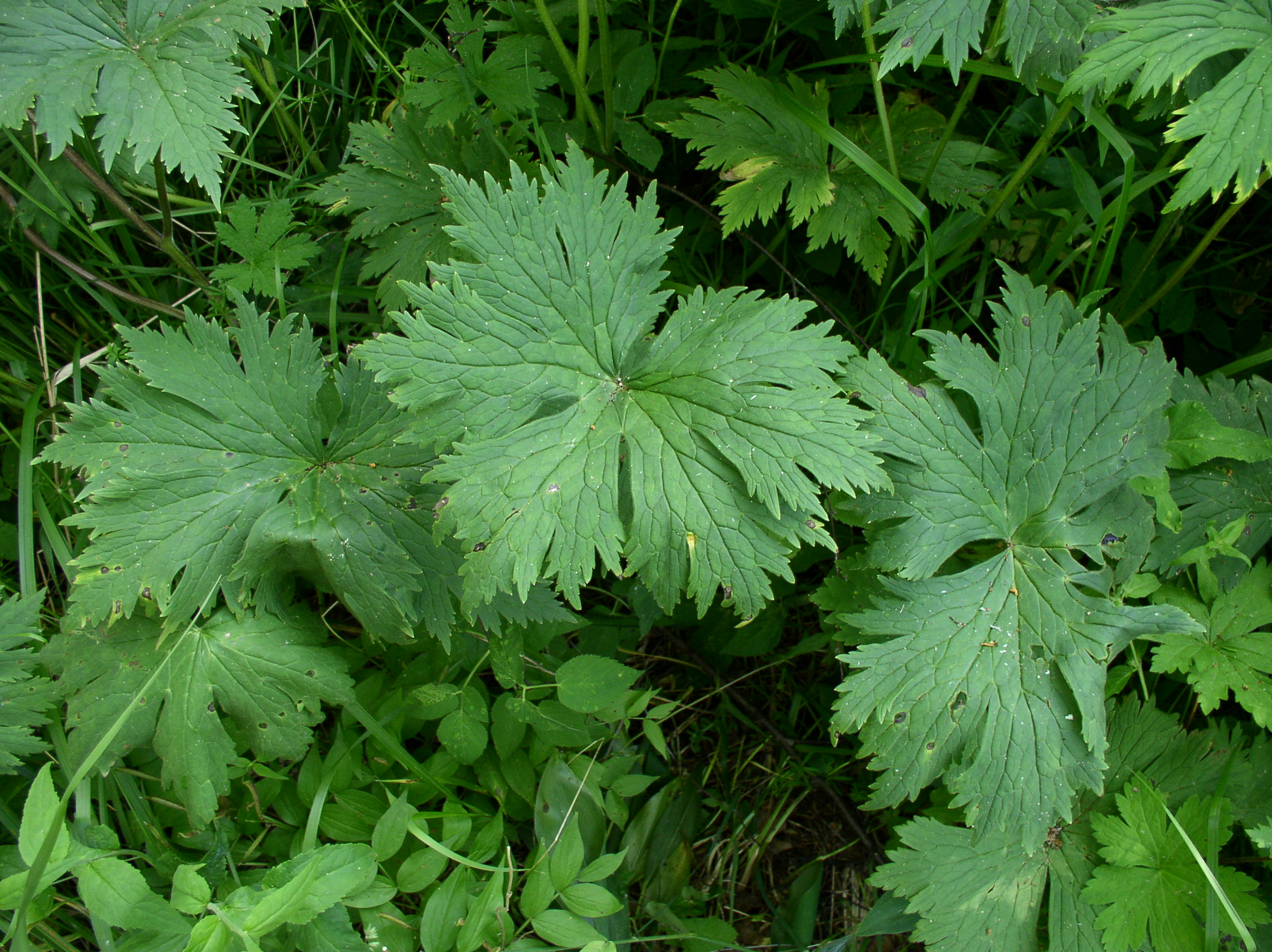 Aconitum lycoctonum (or Aconitum septentrionale) leaves in Kitee, Finland.